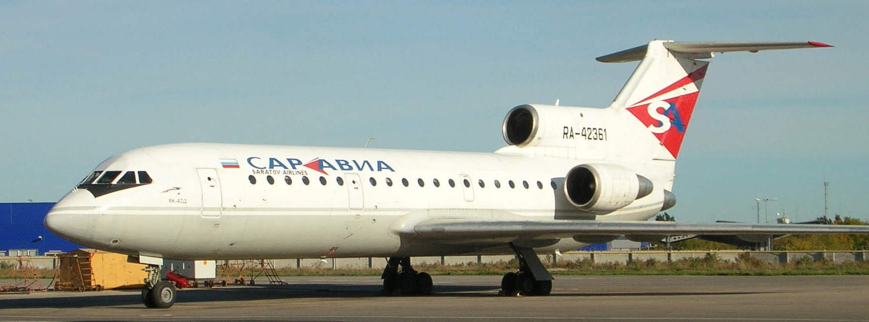 Yak-42D Airlines "Saratov Airlines" in Saratov airport.